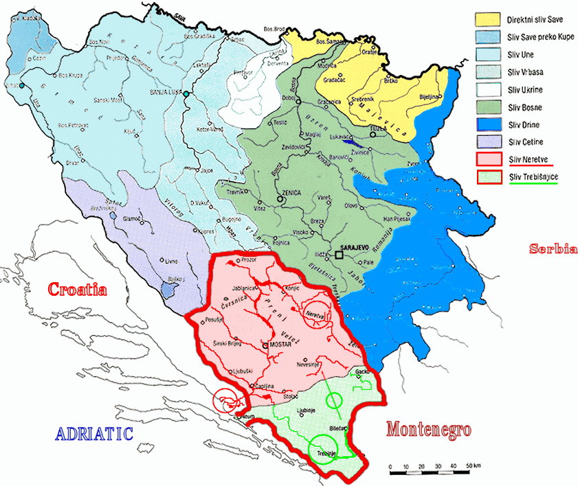 Neretva River Watershed, Bosnia and Herzegovina and Croatia.